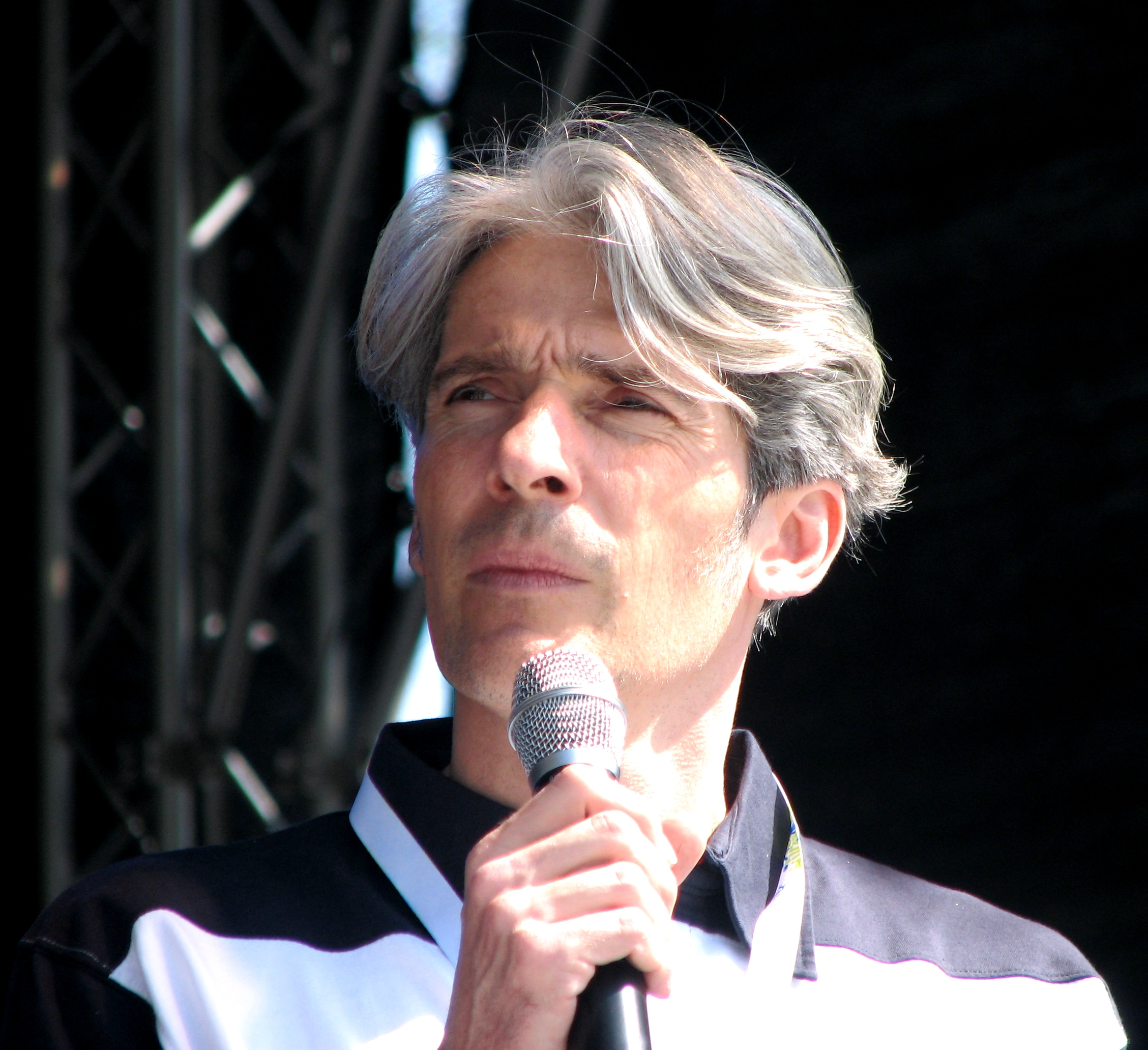 Mikko Fritze performing in Tallinn's day